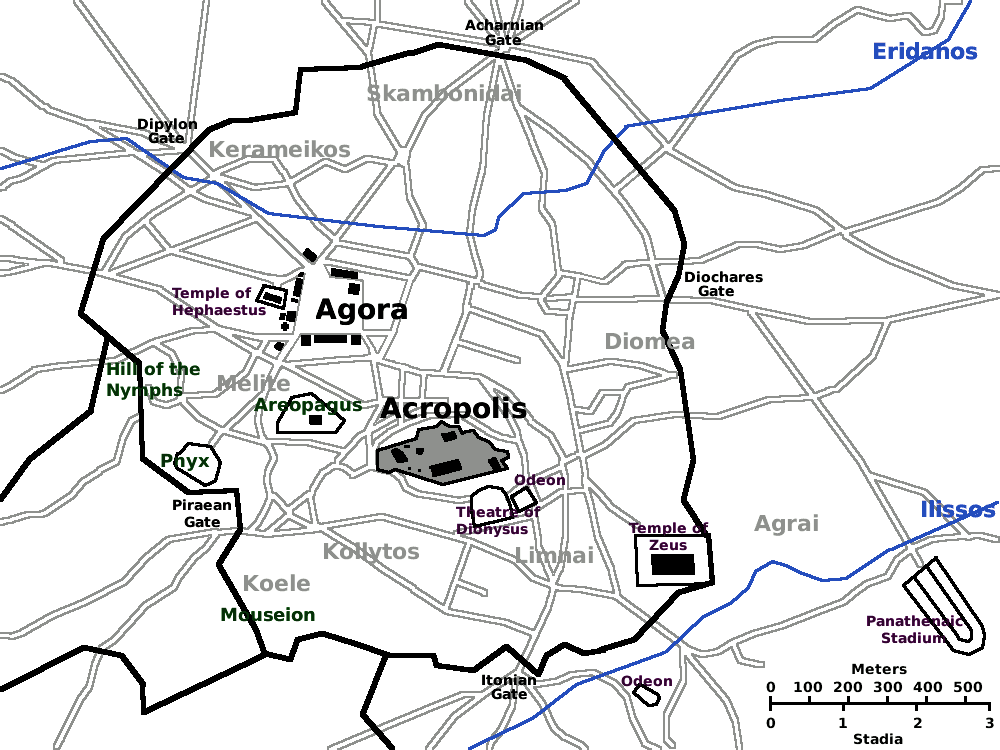 Map of Ancient Athens c. 430 BC. (Athen, Athenes, Atene, Atenas). Based on the Image:Karte Athen MKL1888.png from the 1888 edition of Meyers Konversationslexikon. Revised with modern updates, but not showing the Roman-era features.